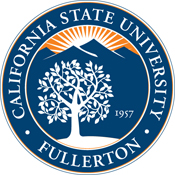 This is the seal of the California State University. Artwork was created by the university.